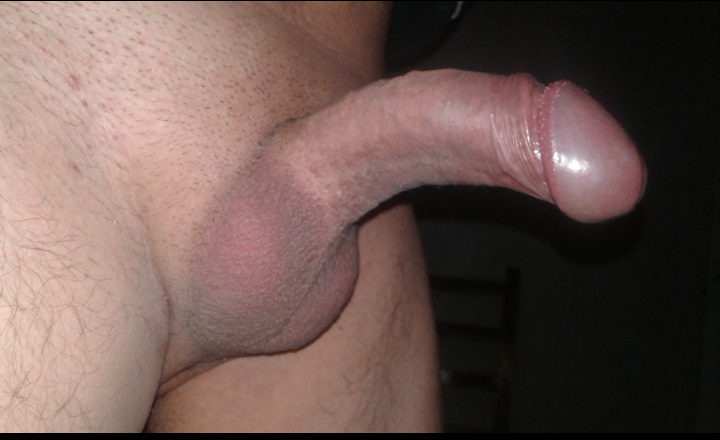 erection